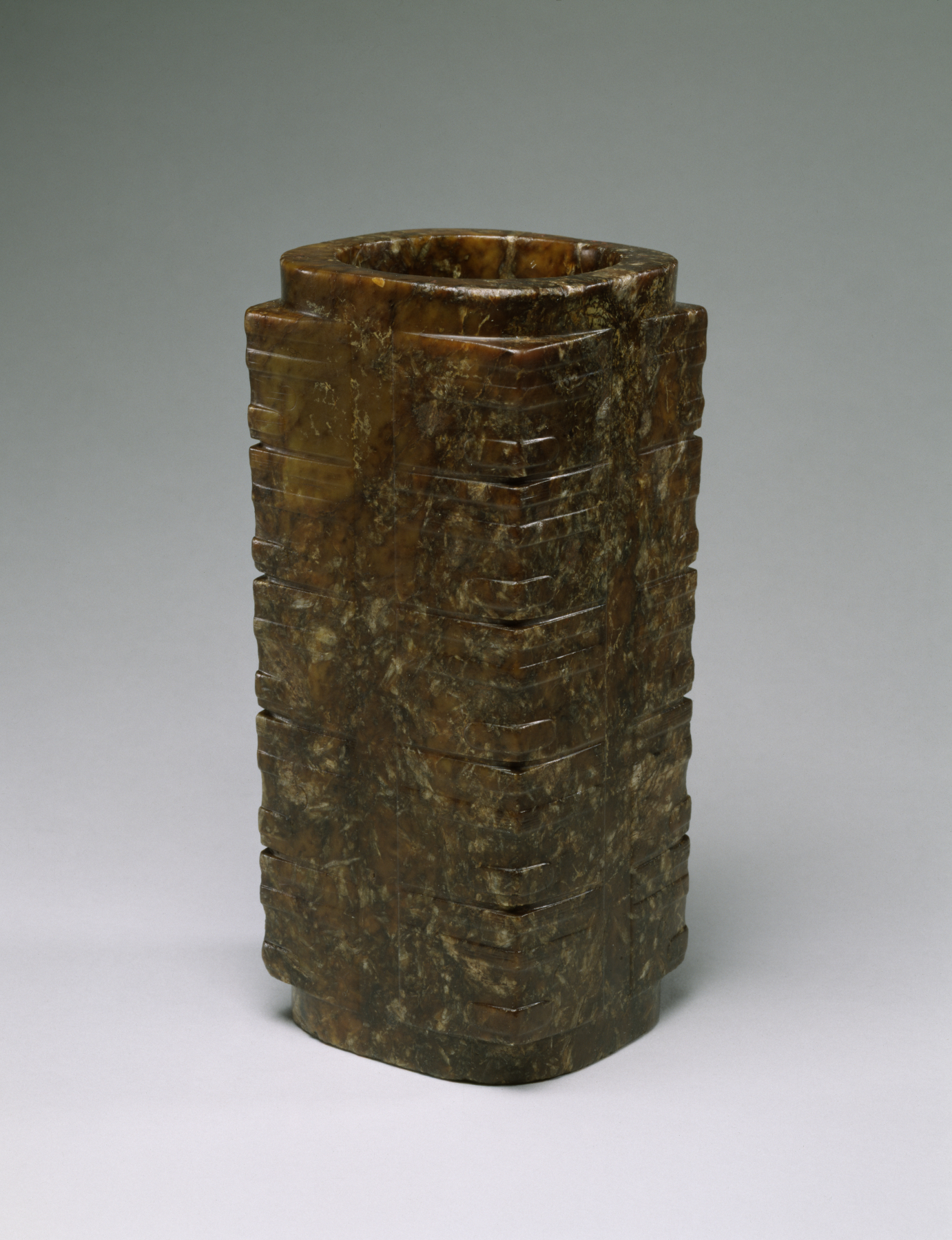 At the corners of this object are the rudiments of masks, one over the other. Notice the incised round eyes.